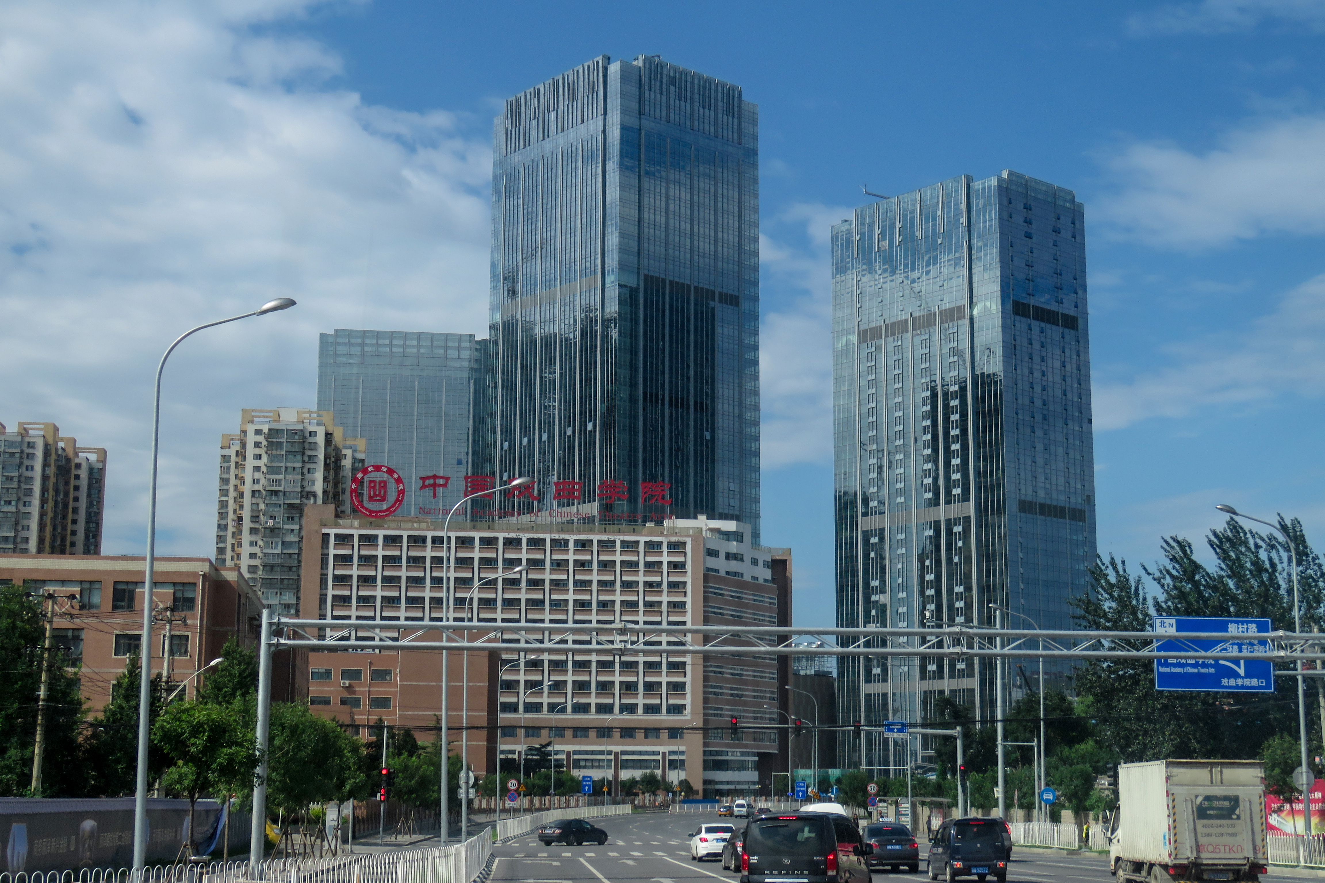 With National Academy of Chinese Theatre Arts visible.